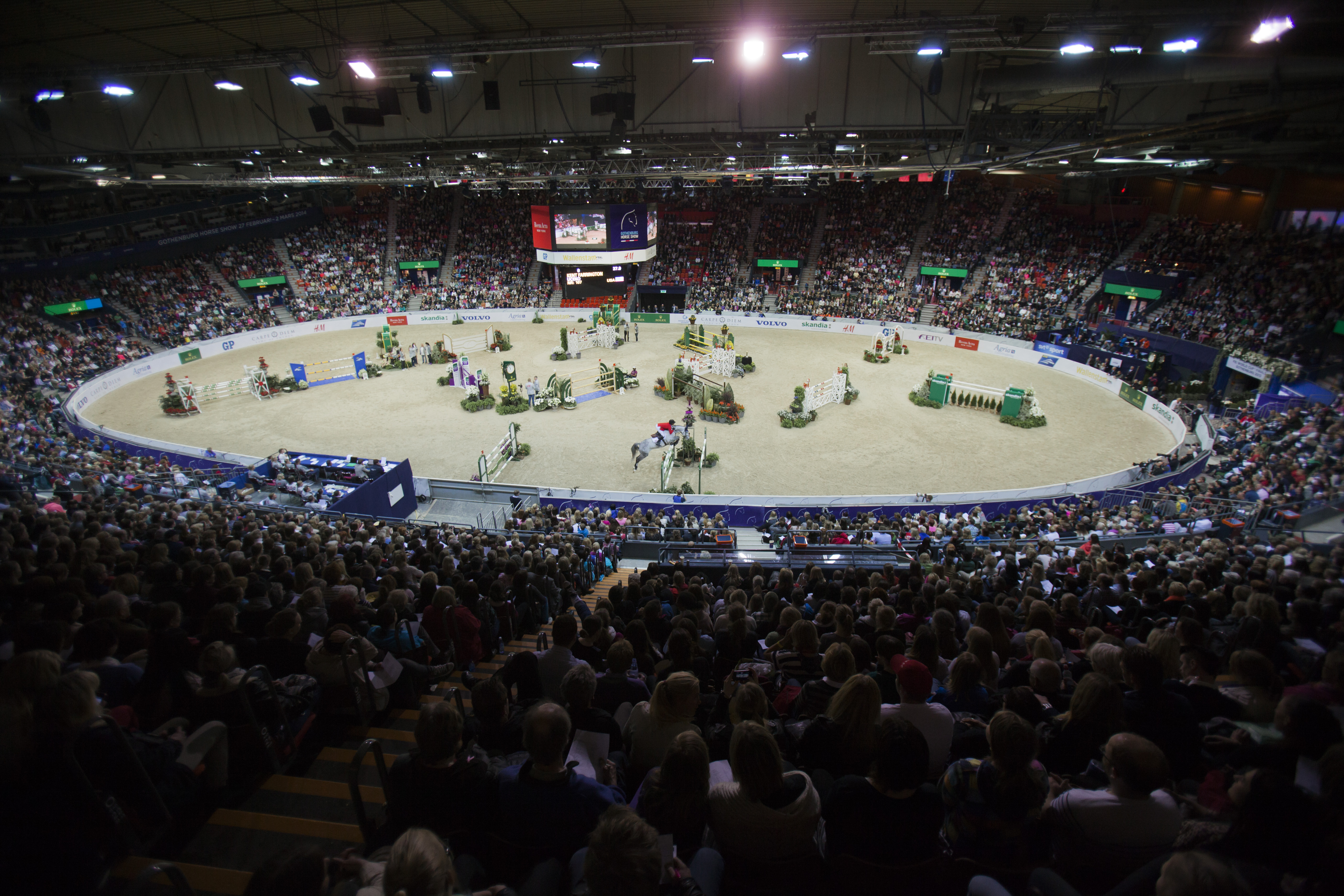 Gothenburg Horse Show in Göteborg . Foto: Jorma Valkonen